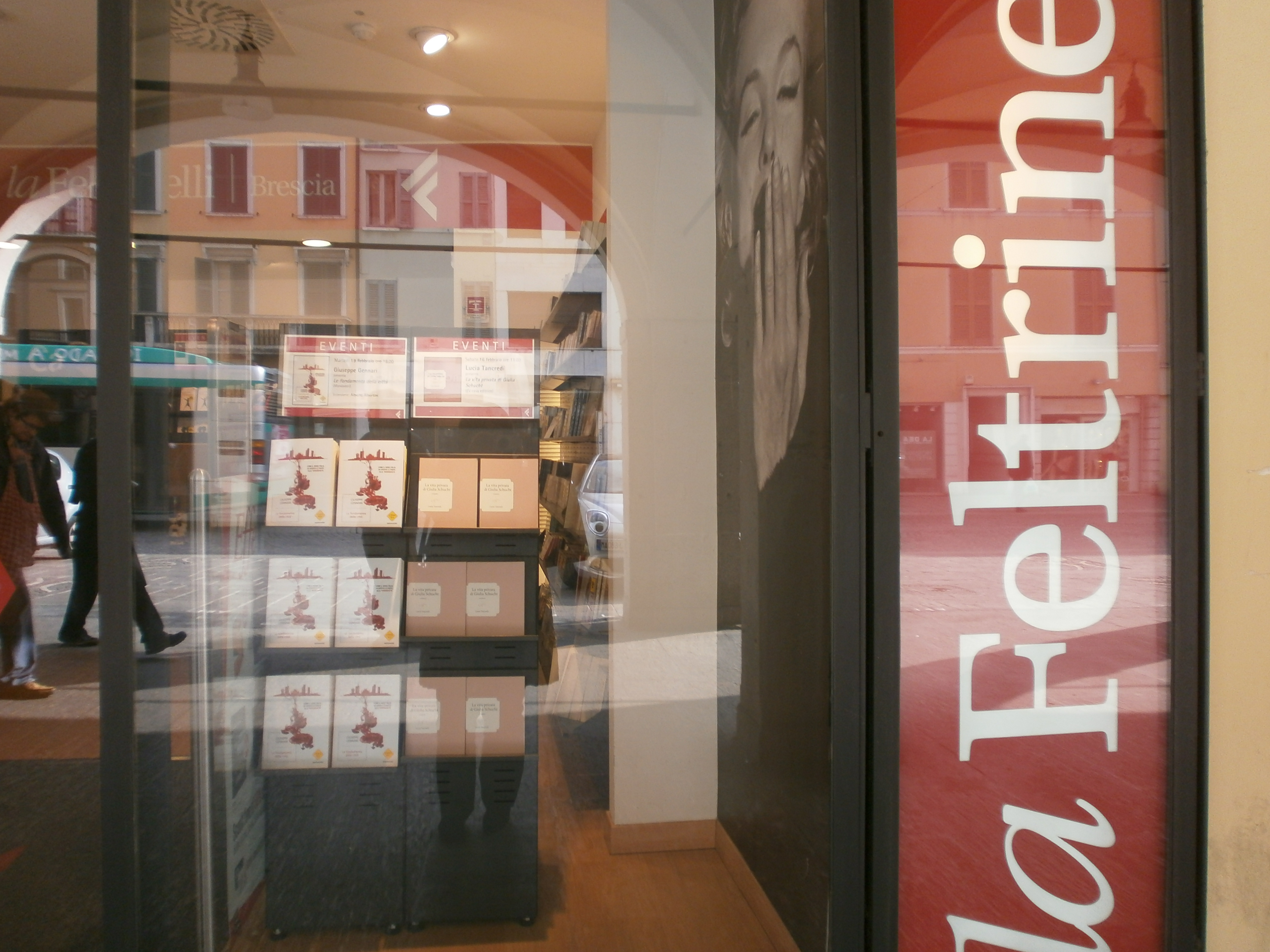 Feltrinelli Book store at Brescia